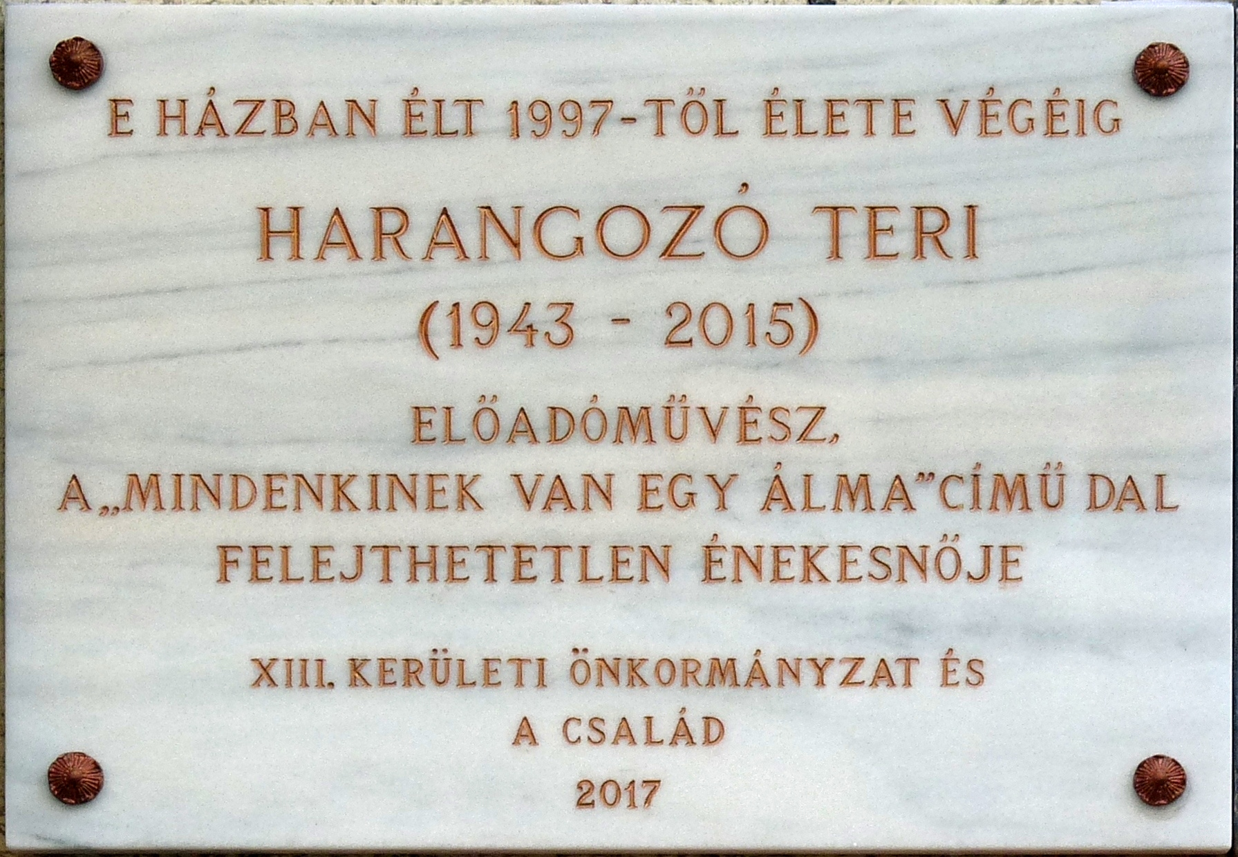 Commemorative plaque to Mrs. Teri Harangozó (1943–2015) Hungarian singer, affixed to the front of the house where she lived between 1997 and 2015. The plaque was unveiled on 8 September 2017 on the occasion of the 2nd anniversary of her death. (Budapest, District XIII, Hollán Ernő Street Nr 41)